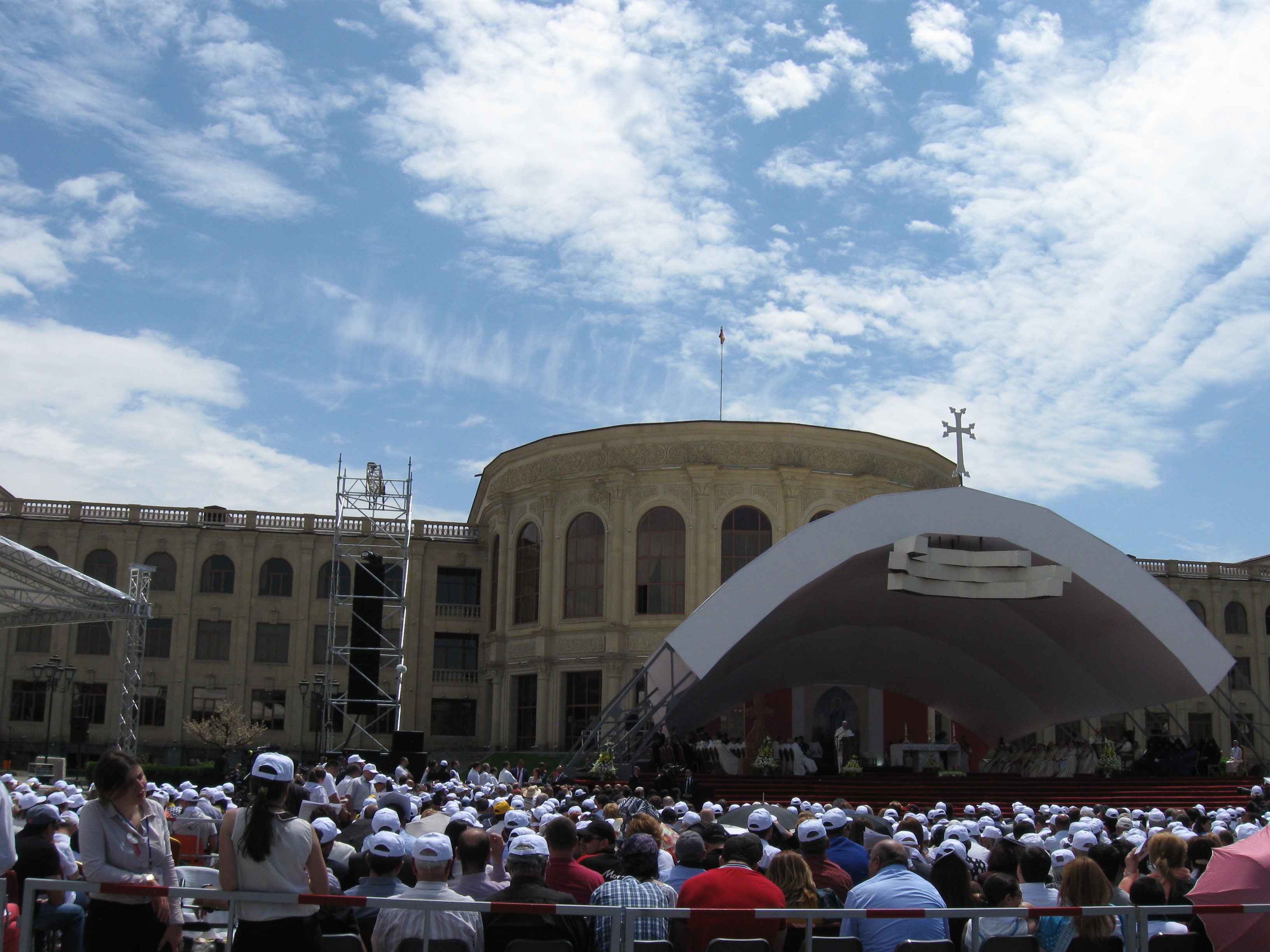 Pope Francis is visiting Gyumri.